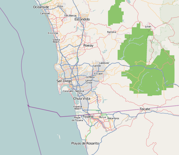 This map of San Diego–Tijuana (primary urban area) was created from OpenStreetMap project data, collected by the community. This map may be incomplete, and may contain errors. Don't rely solely on it for navigation.